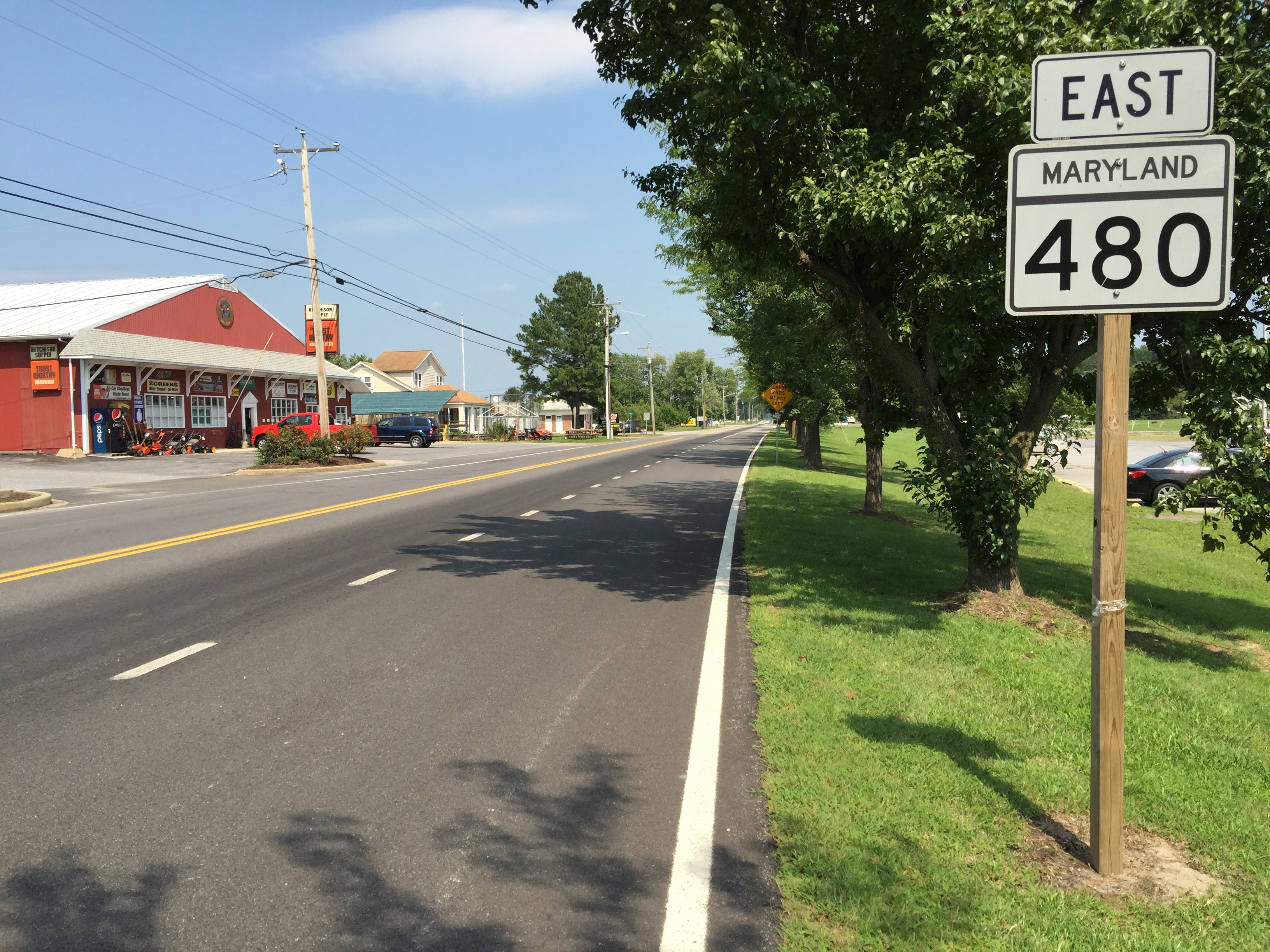 View east along Maryland State Route 480 (Ridgely Road) at Maryland State Route 312 (Central Avenue) in Ridgely, Caroline County, Maryland